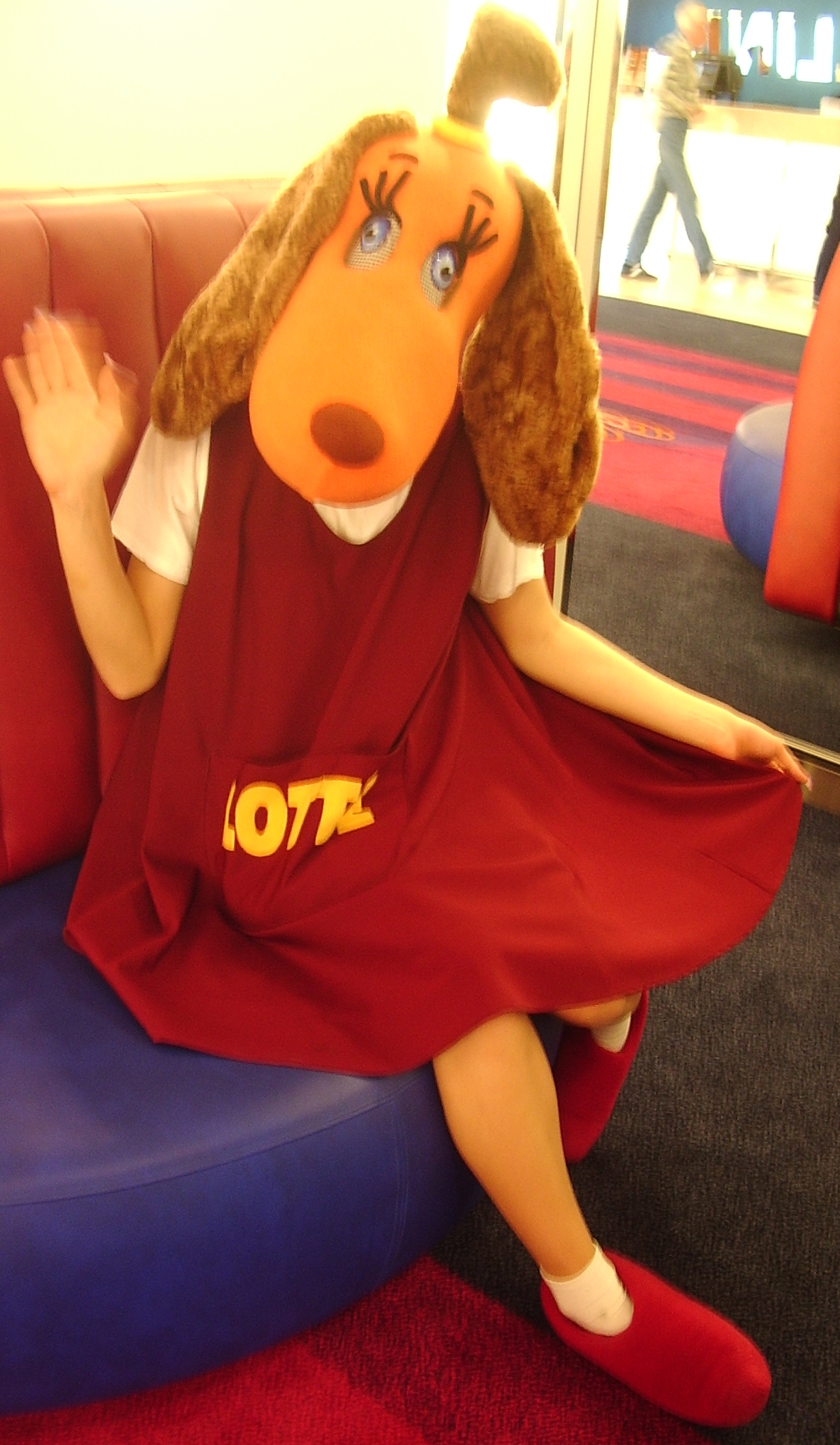 Lotte from Gadgetville on M/S Baltic Queen.